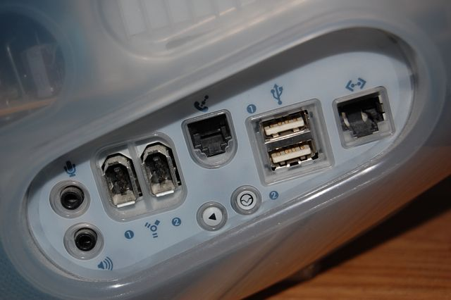 side panel of an iMac G3 showing available ports for audio, firewire, telephone, USB, and ethernet